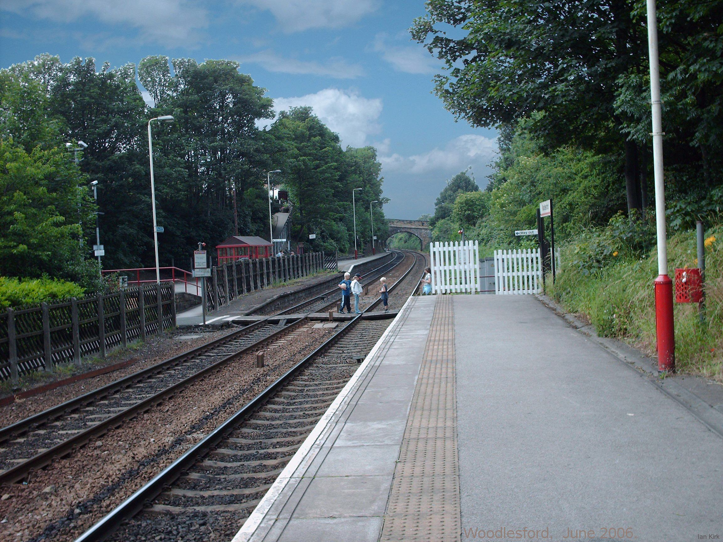 Woodlesford railway station, West Yorkshire, England. The view from platform 2.